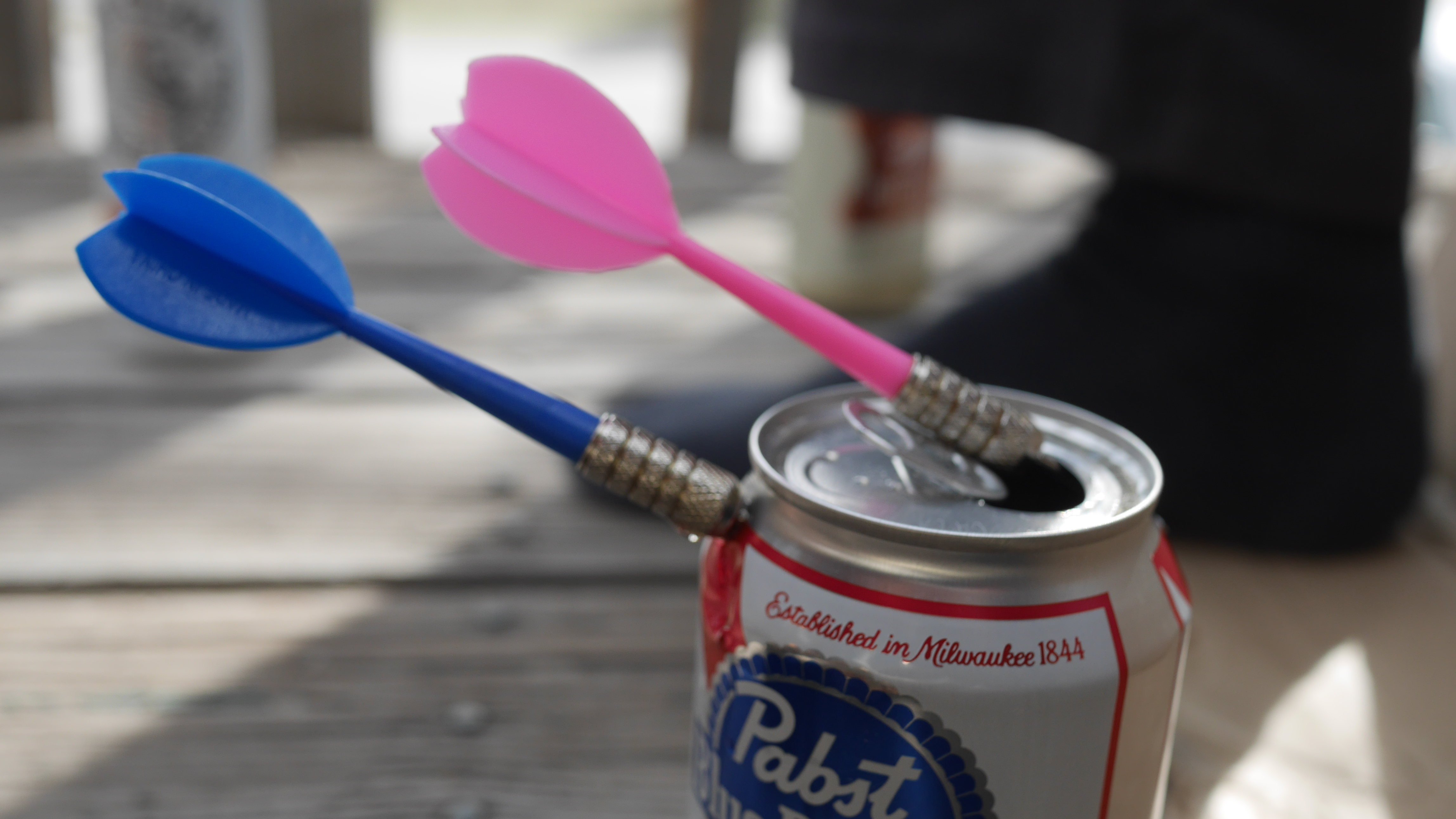 Drink can receives punctures from darts